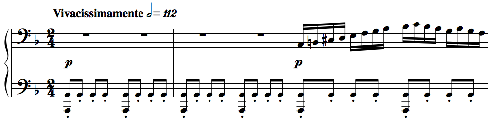 Introduction to Le Chemin de Fer, composed by Charles-Valentin Alkan